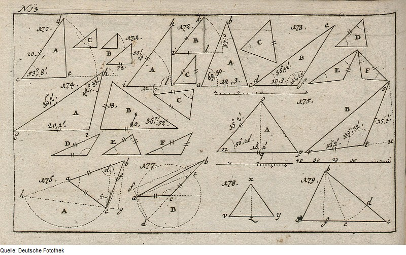 Original image description from the Deutsche Fotothek Geometrie & Trigonometrie